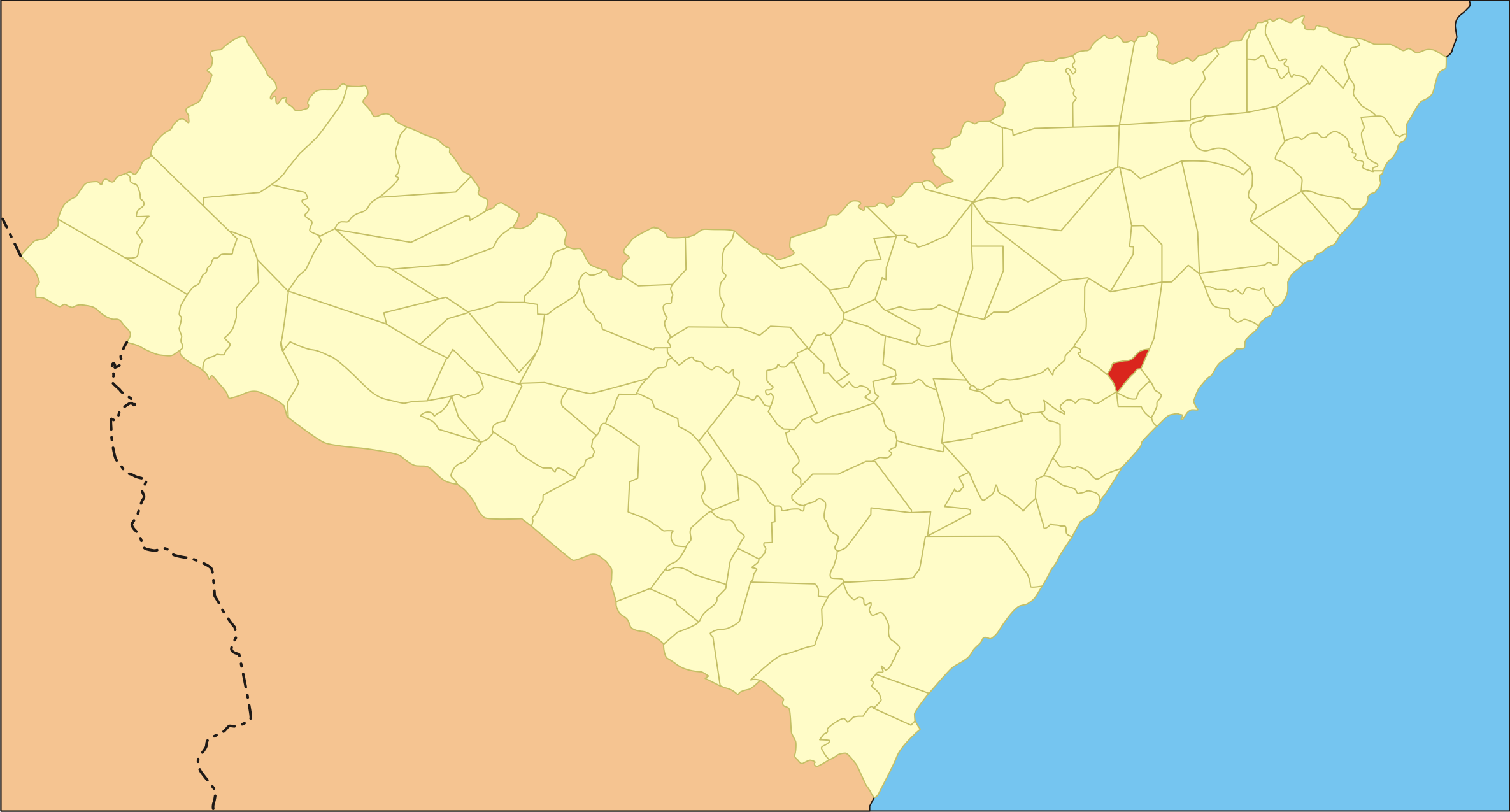 City localization in Alagoas